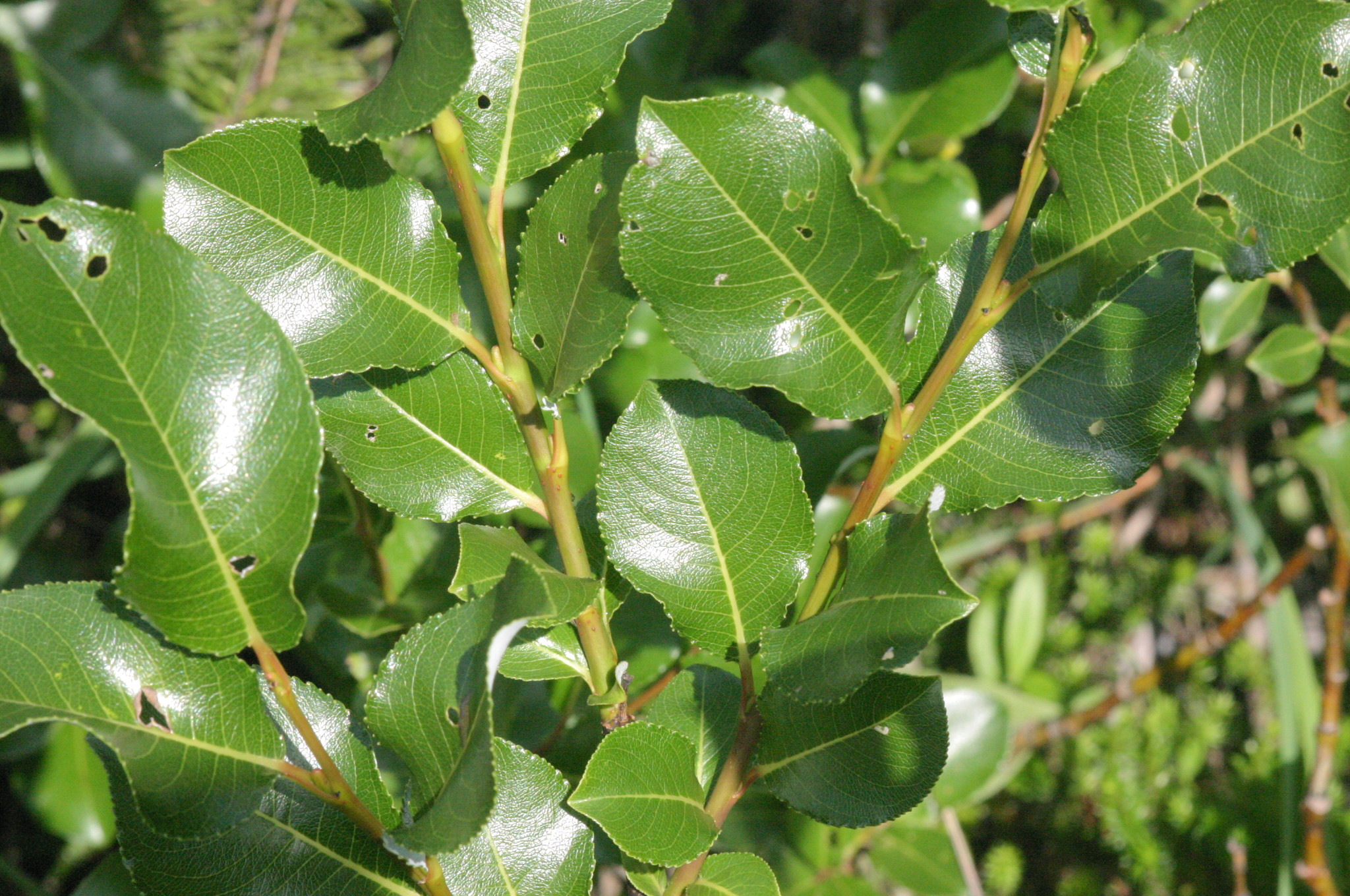 Salix glabra